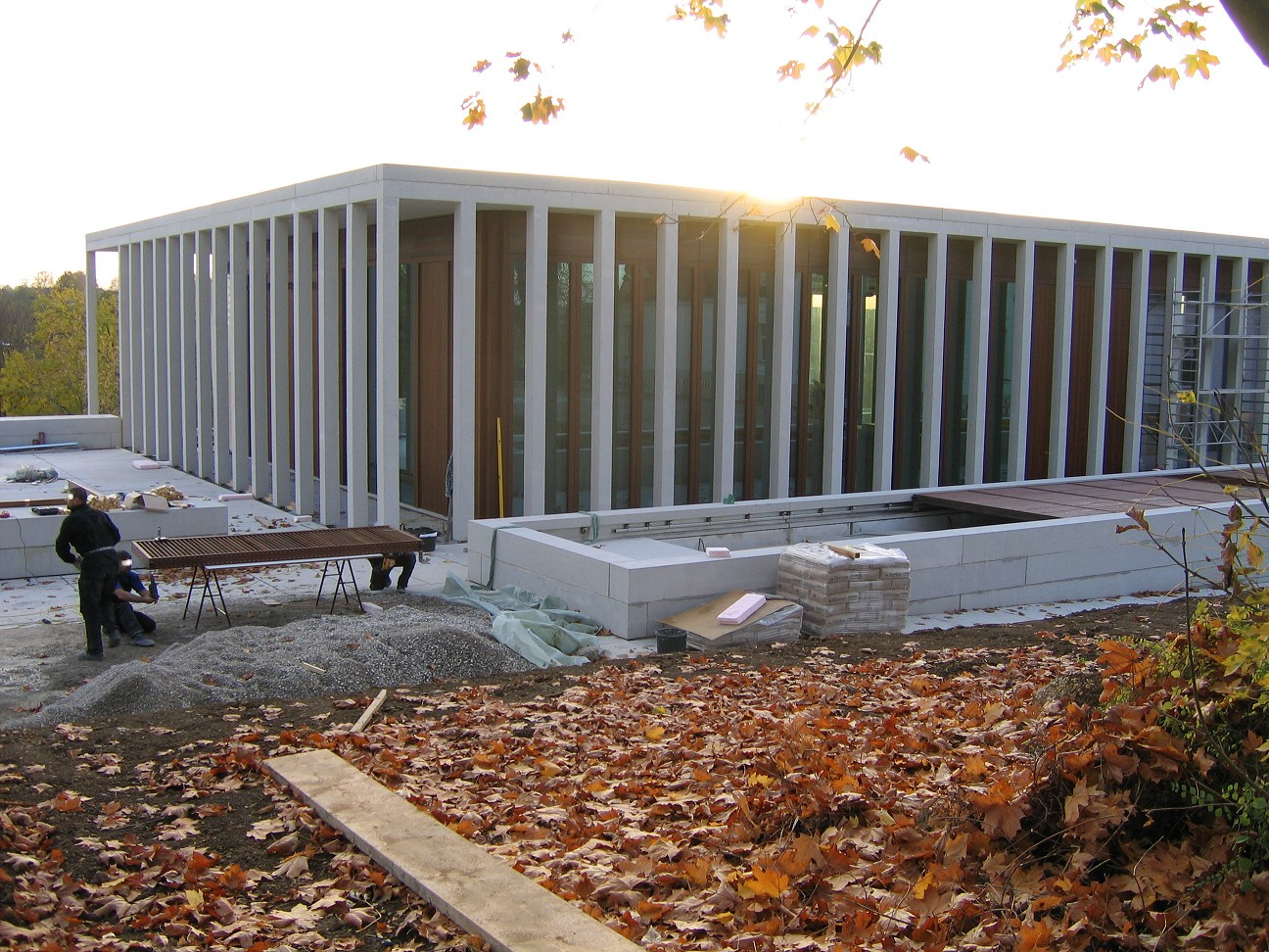 Construction works going on at the extension building of the German Literature Archives in Marbach am Neckar